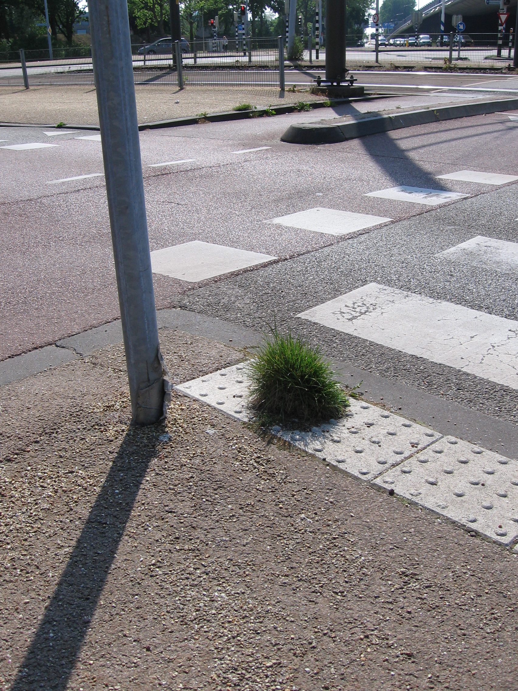 Poa annua (annual meadow grass, annual bluegrass, poa). Stubborn clump of grass on a footpath at 24 Oktoberplein, Utrecht, The Netherlands.